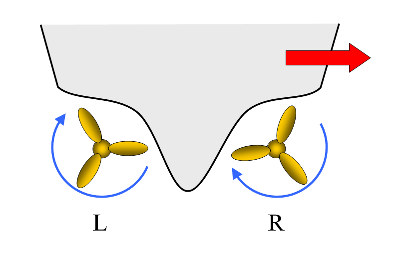 Propeller walk of a ship with two counter-rotating propellers